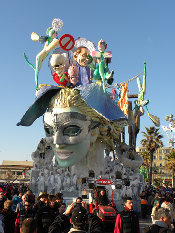 Allegorical float by macromega.it build for Viareggio carnival